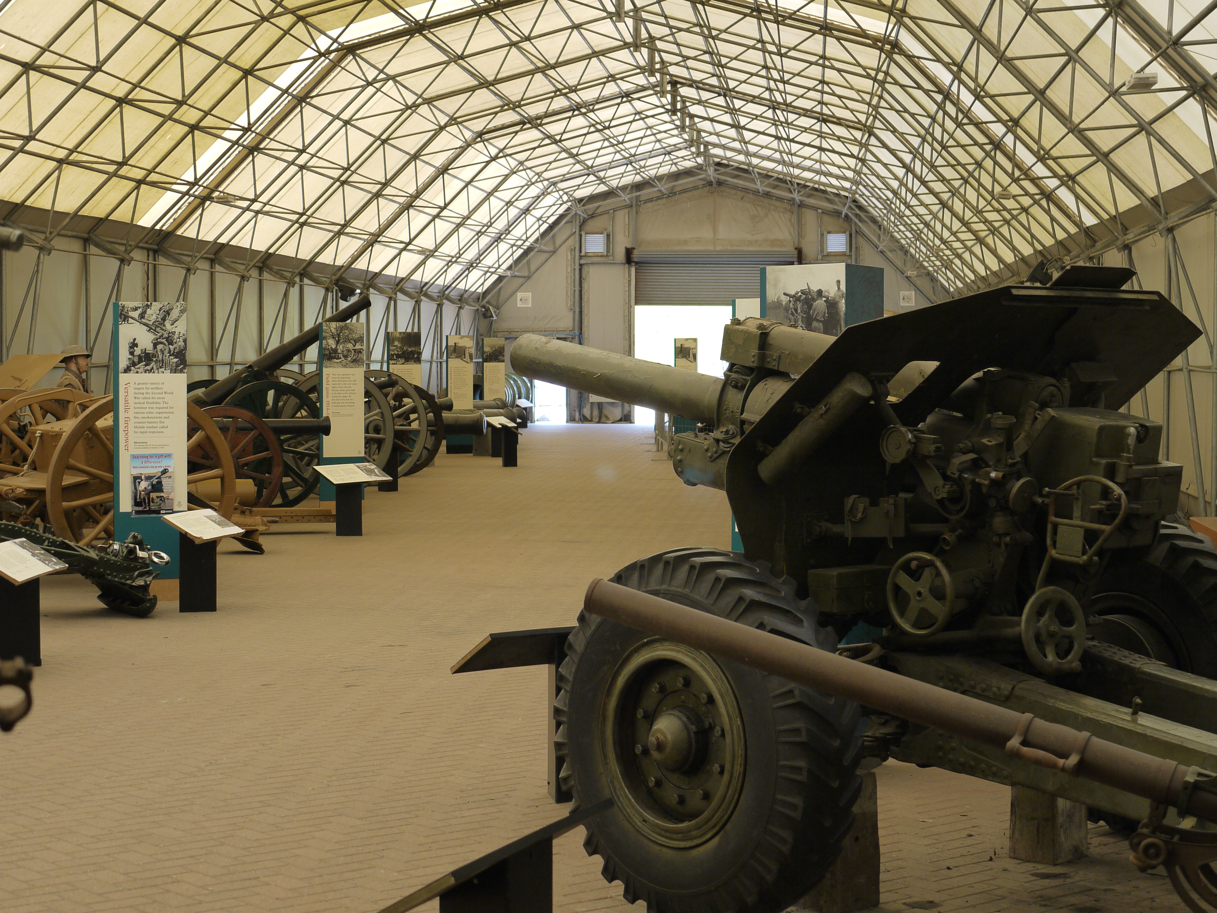 Photo of part of the Artillery Hall gallery at fort nelson